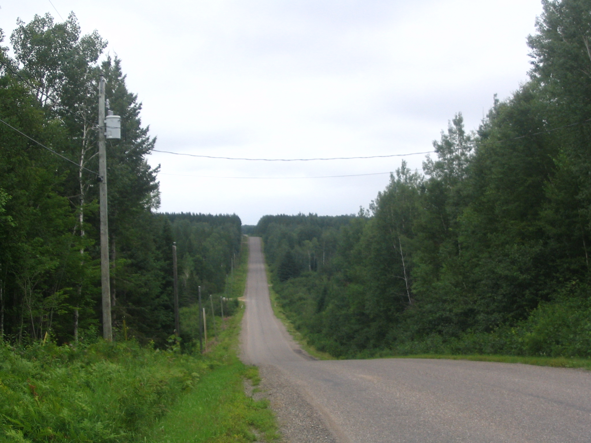 One of the valleys in Notre-Dame-des-Érables, in New Brunswick, Canada.